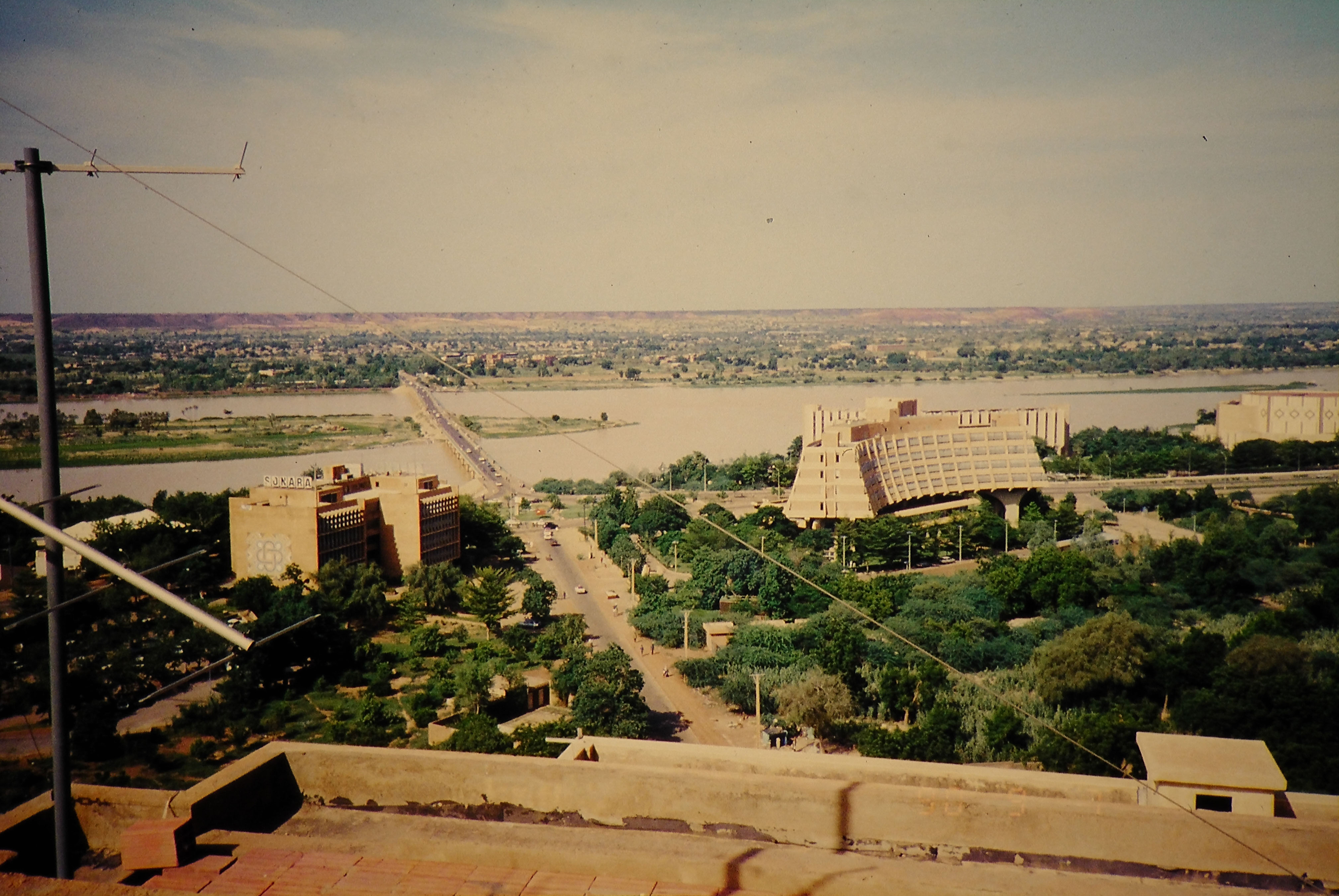 View over Niamey, the Niger river and Kennedy bridge.